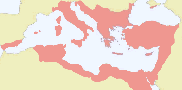 Byzantine Empire near its peak under Justinian.